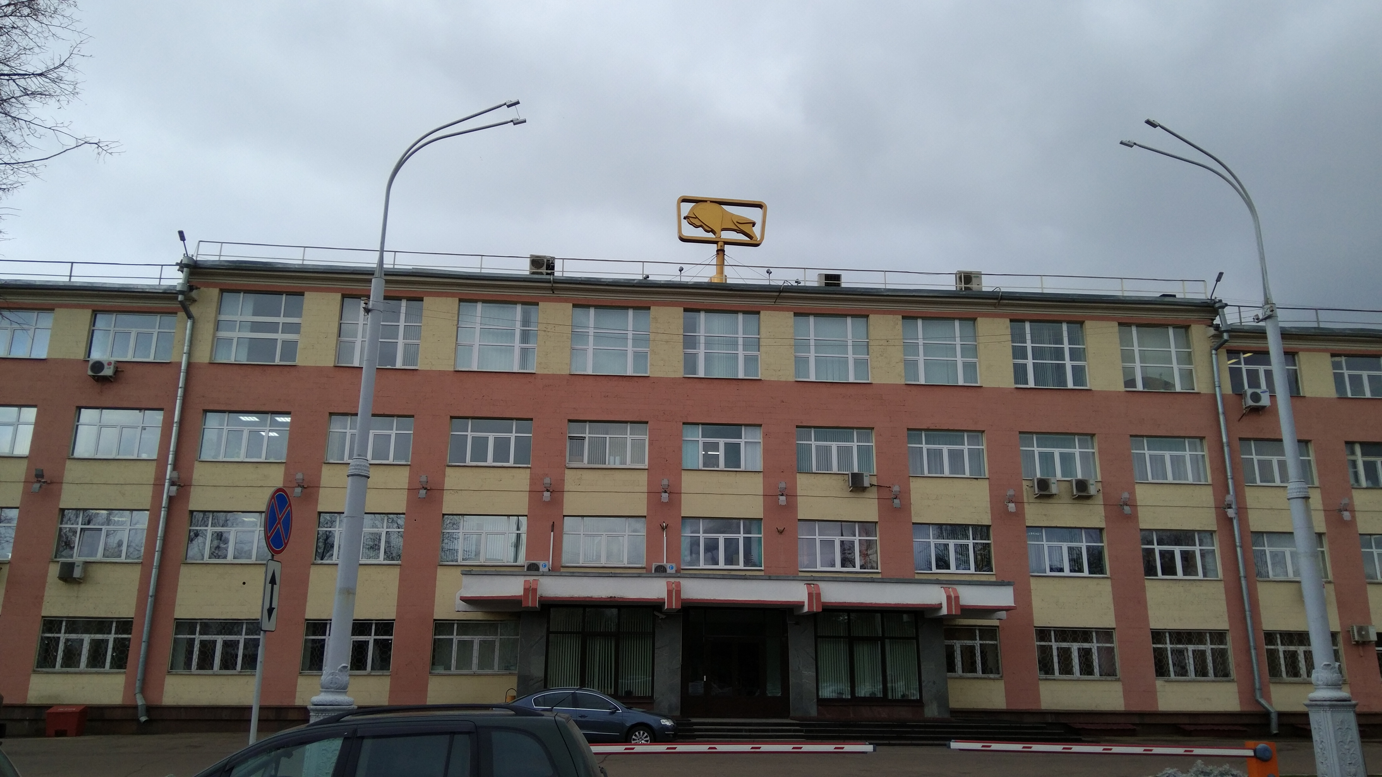 Headquarters of MAZ in November 2017.